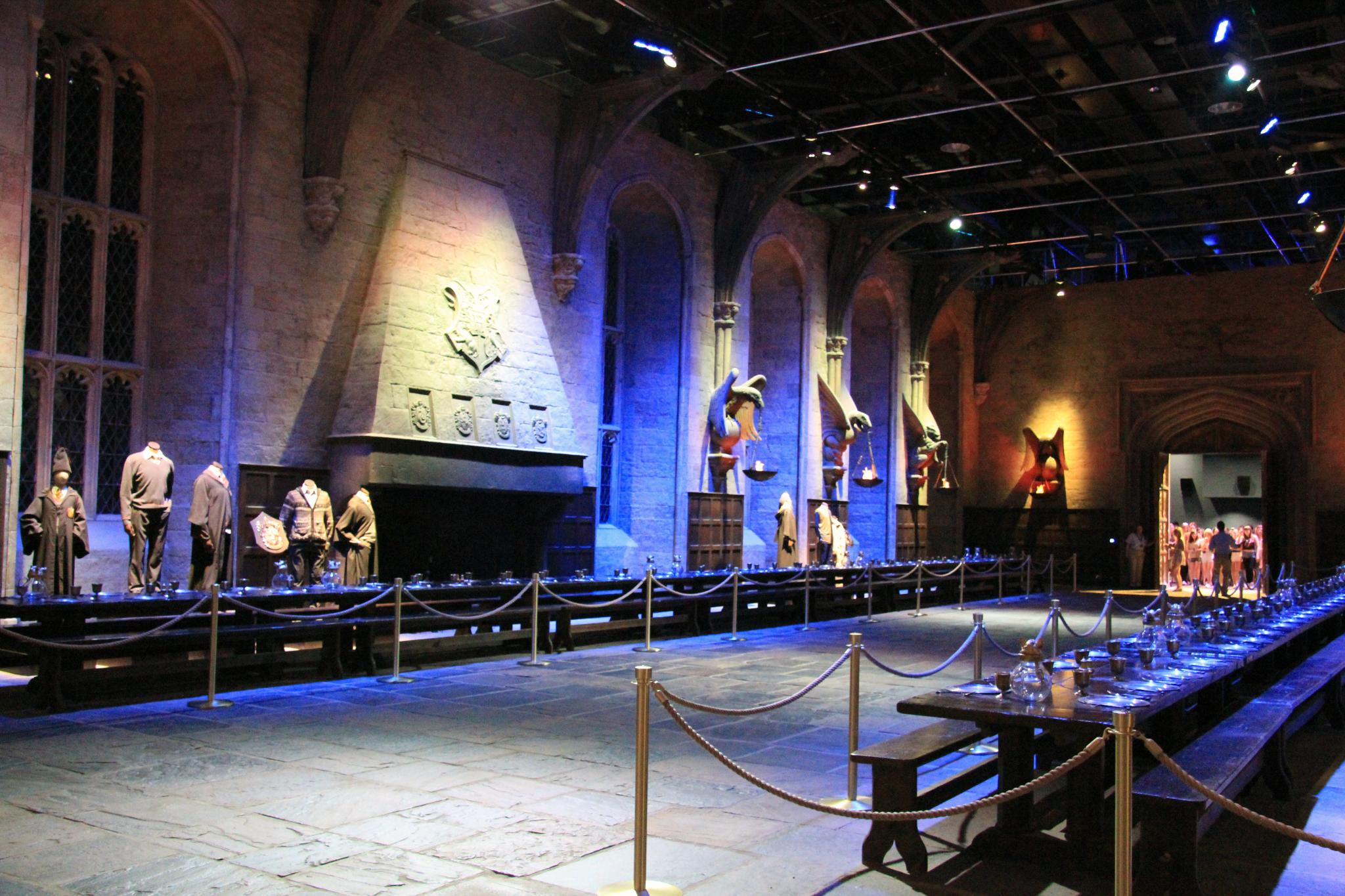 Warner Bros. Studio Tour London: The Making of Harry Potter.